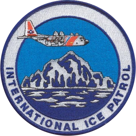 Emblem of the International Ice Patrol